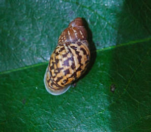 The Eua zebrina is endemic to American Samoa. It is found only on Tutuila and Ofu. Photo by Dan Clark/USFWS